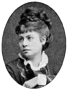 Image scanned from the book "Svenskt Porträttgalleri XX - Arkitekter, Bildhuggare, Målare m.fl. " ("Swedish Portrait Gallery XX - Architects, Sculptors, Painters, ") published 1901